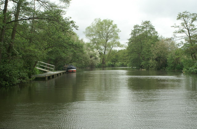 River Avon above Swineford.